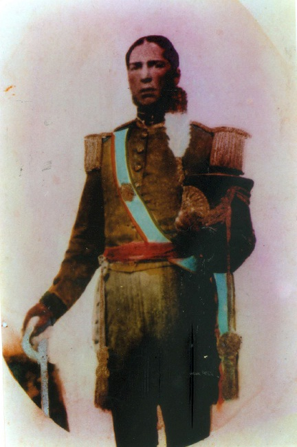 Barão de Camanducaia usando o uniforme da Guarda Nacional. Foto colorizada.